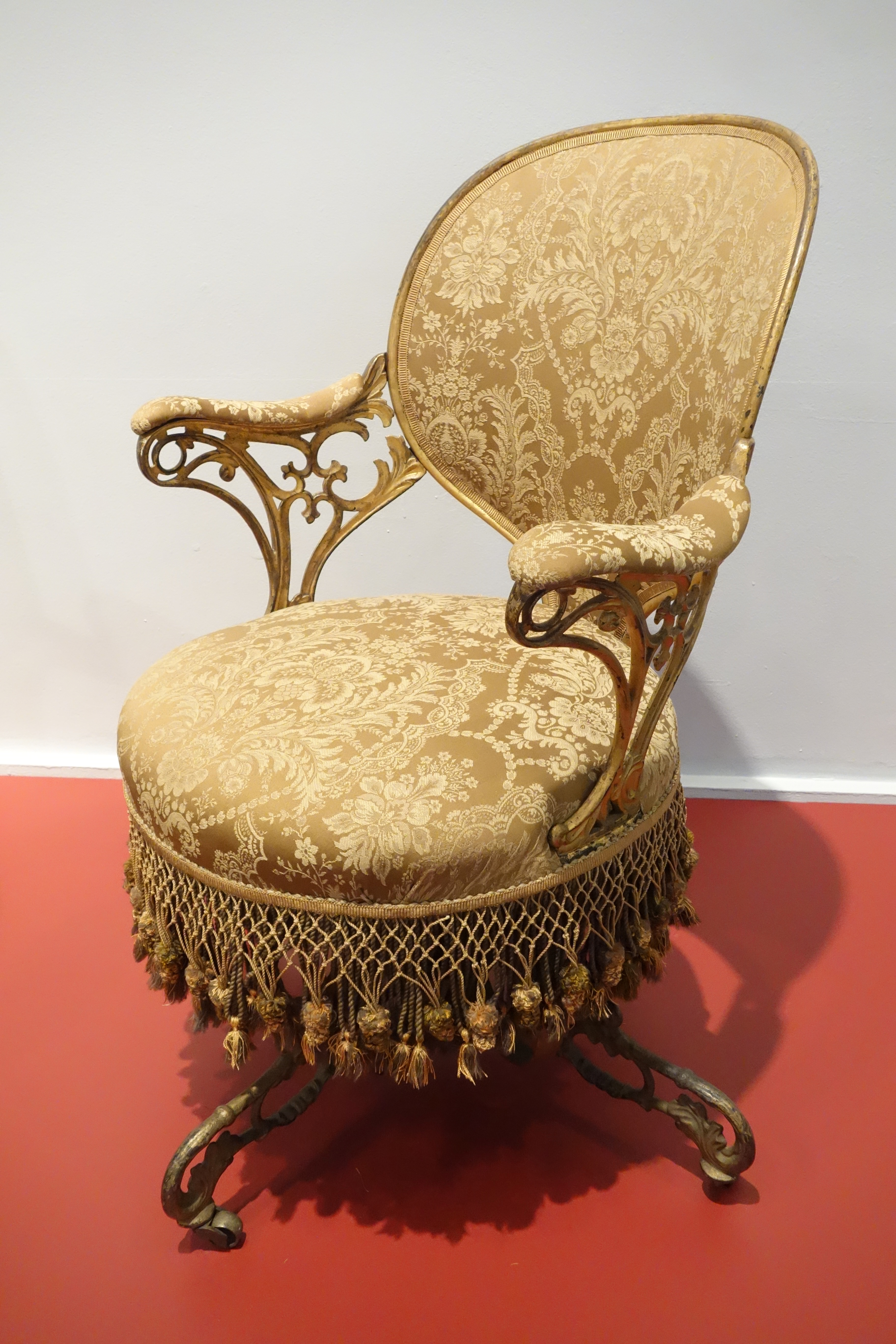 Exhibit in the Brooklyn Museum - Brooklyn, New York, USA. This artwork is in the public domain because the artist died more than 70 years ago.